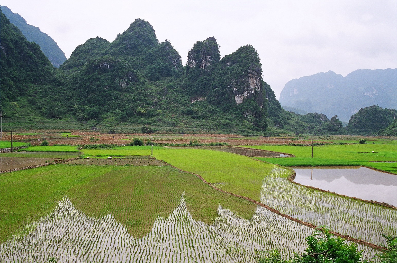 Cao Bang Province, Vietnam. Photographer Mike Williams